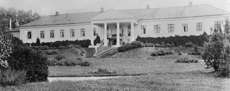 The Norwegian estate Skinnarbøl outside of Kongsvinger